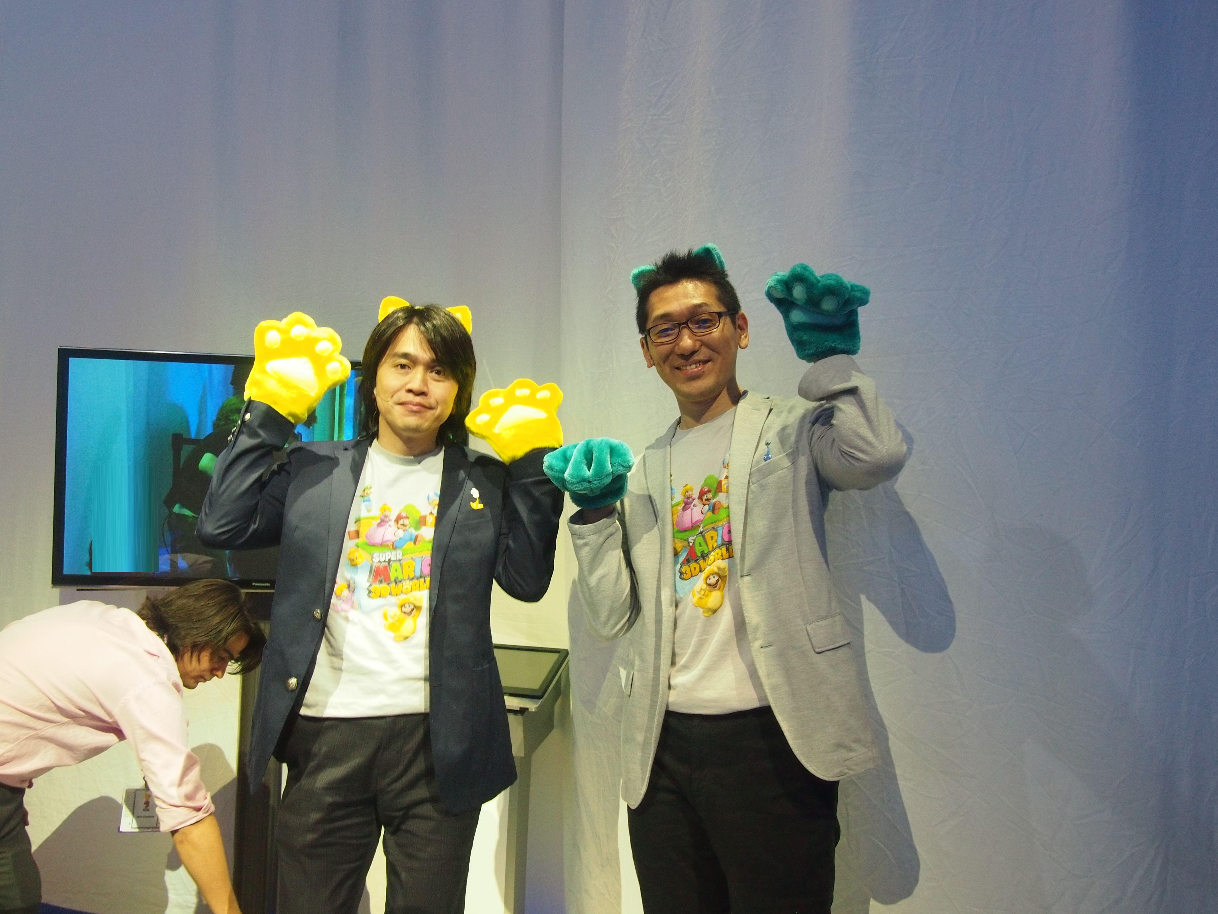 Yoshiaki Koizumi (producer, left) and Koichi Hayashida (director, right) present Super Mario 3D Land at E3 2013.